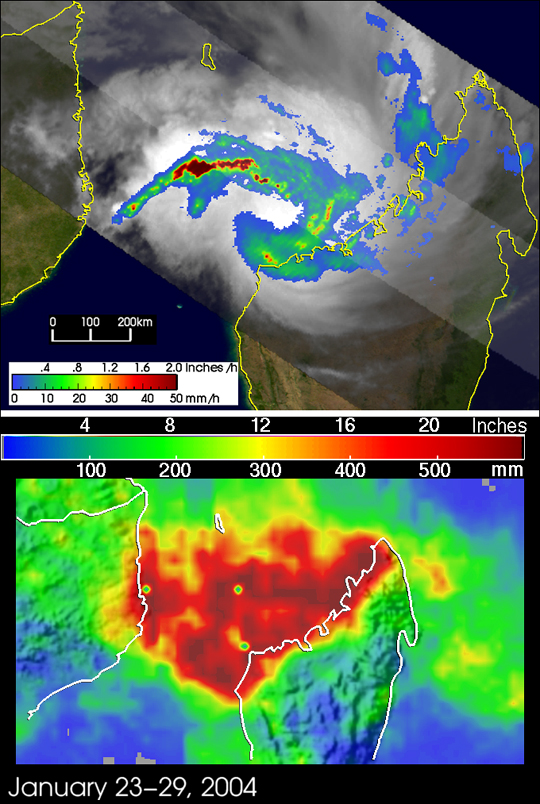 Saellite-measure rainfall from 2004's Cyclone Elita